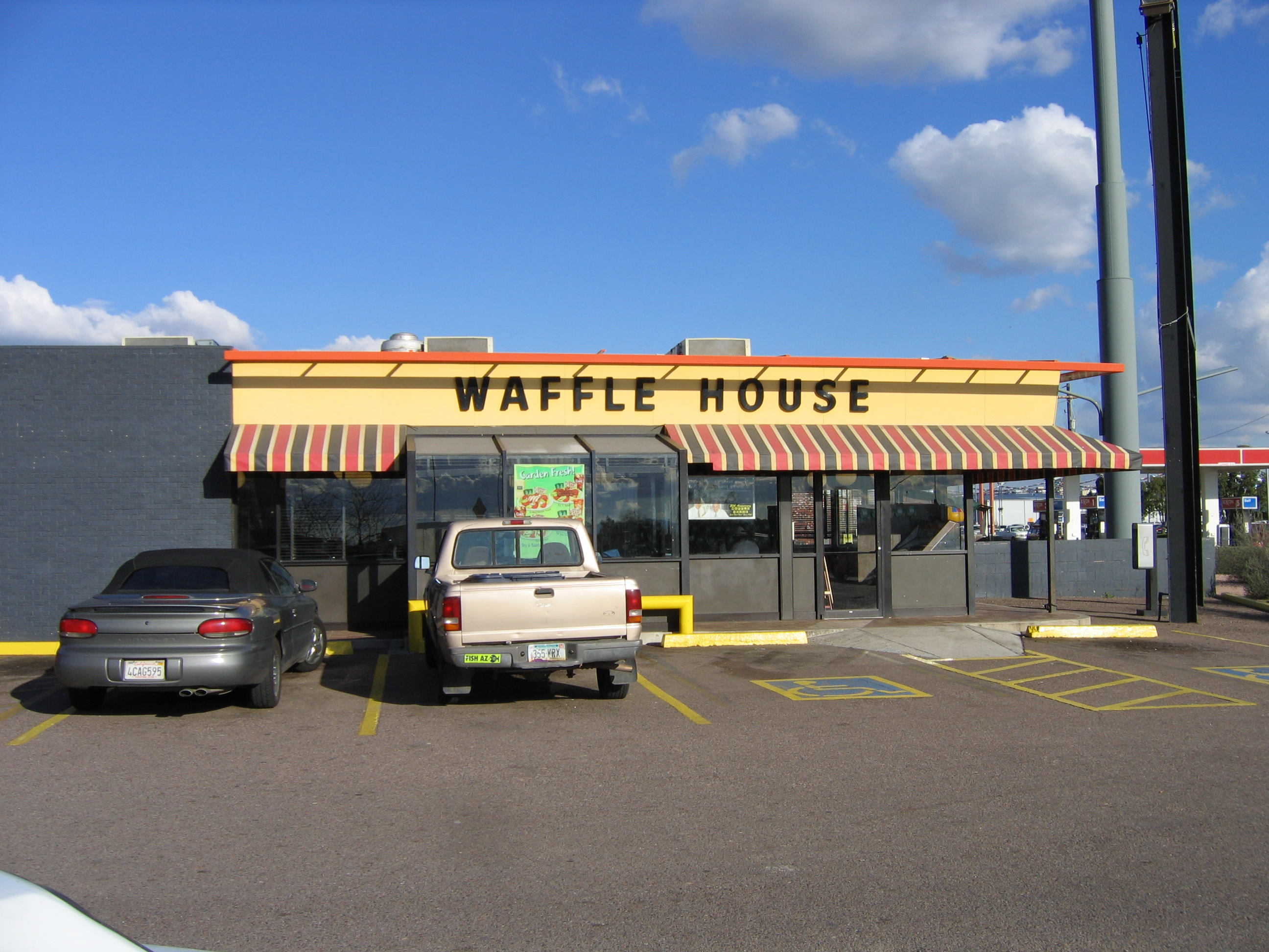 Waffle House Restaurant. 2516 W. Bell Road, Phoenix, Arizona, United States